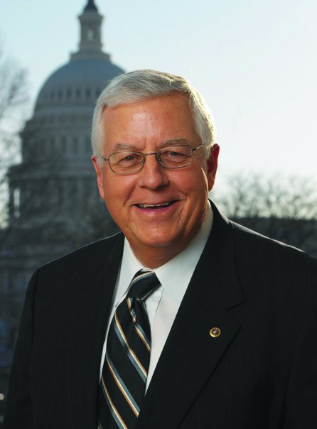 Official portrait of United States Senator Mike Enzi (R-WY).